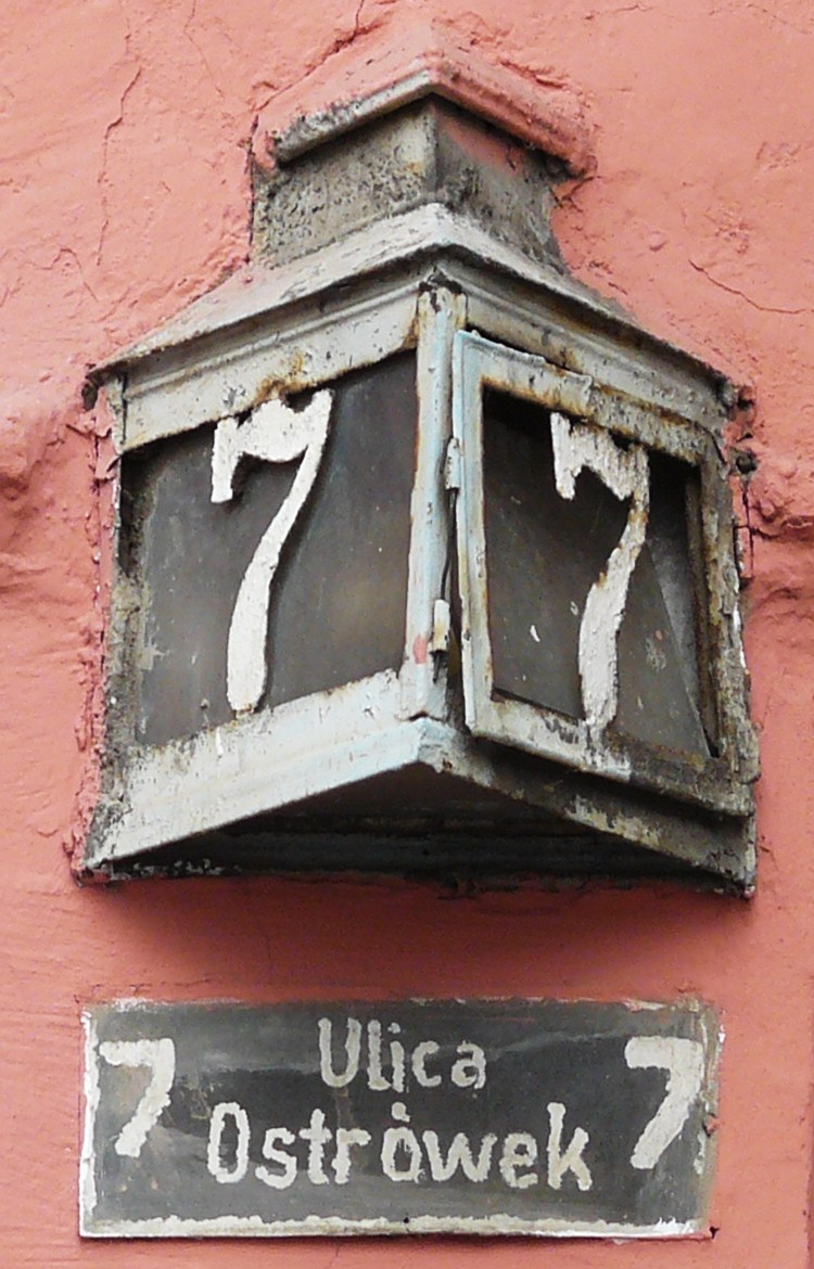 Ostrowek Street, Poznan.